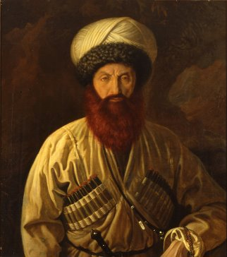 Imam Shamil by Emmanuil Dmitriev-Mamonov